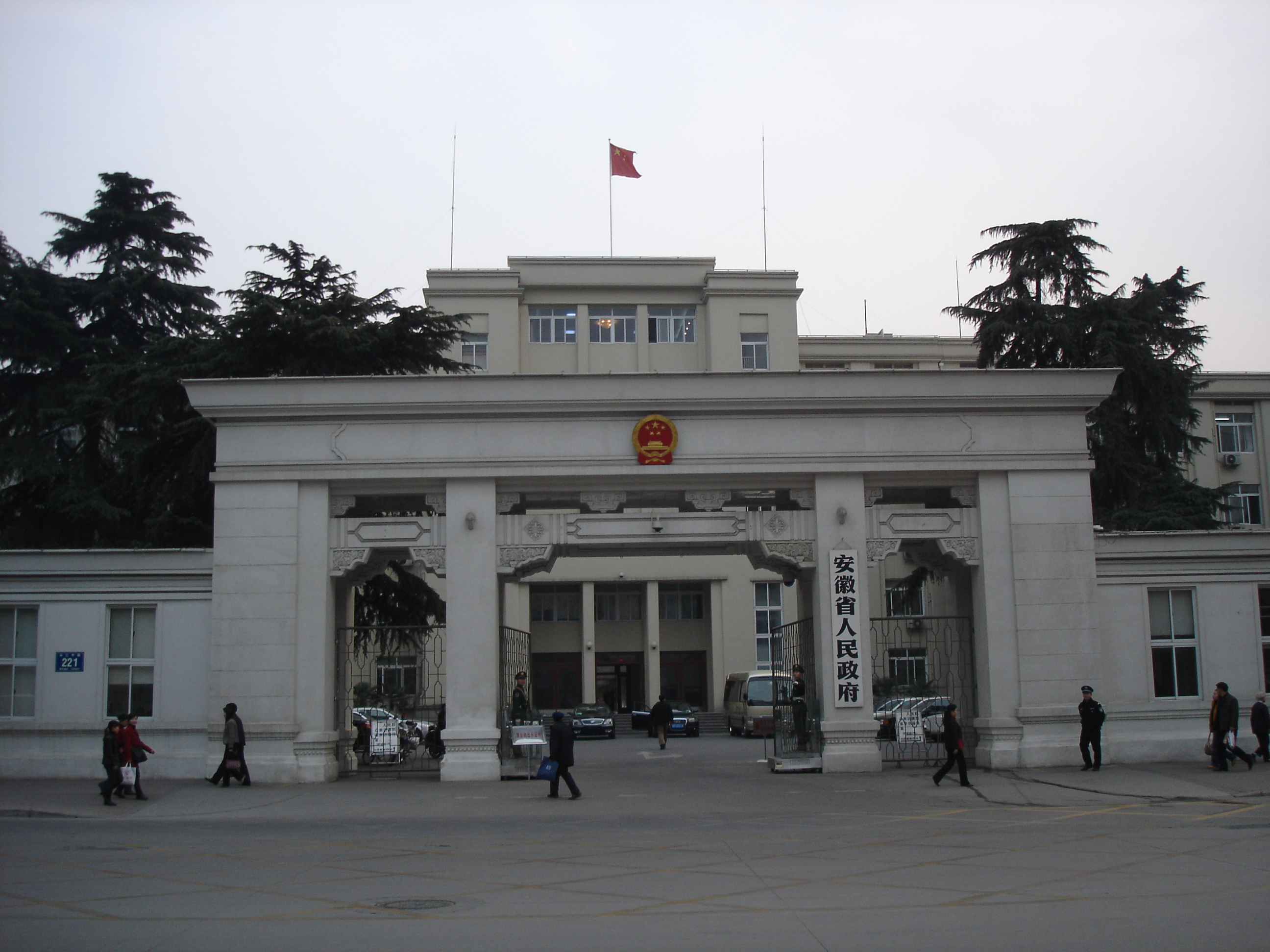 The People's Government of Anhui Province, PRC. Address: No. 221, Changjiang Middle Road, Hefei City, Anhui Province, PRC.